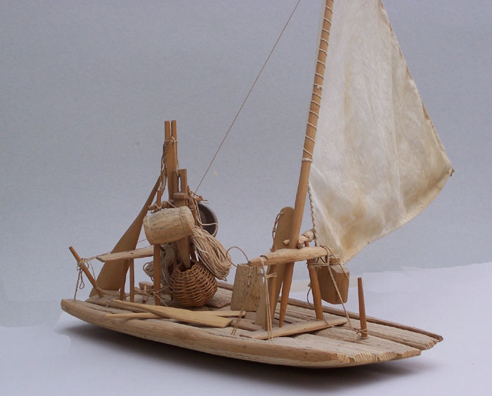 modell of a Jaganda, made by Airton Caetano da Silva, Fortaleza CE, Brasil Jangadas: A Brazilian Fishing Craft